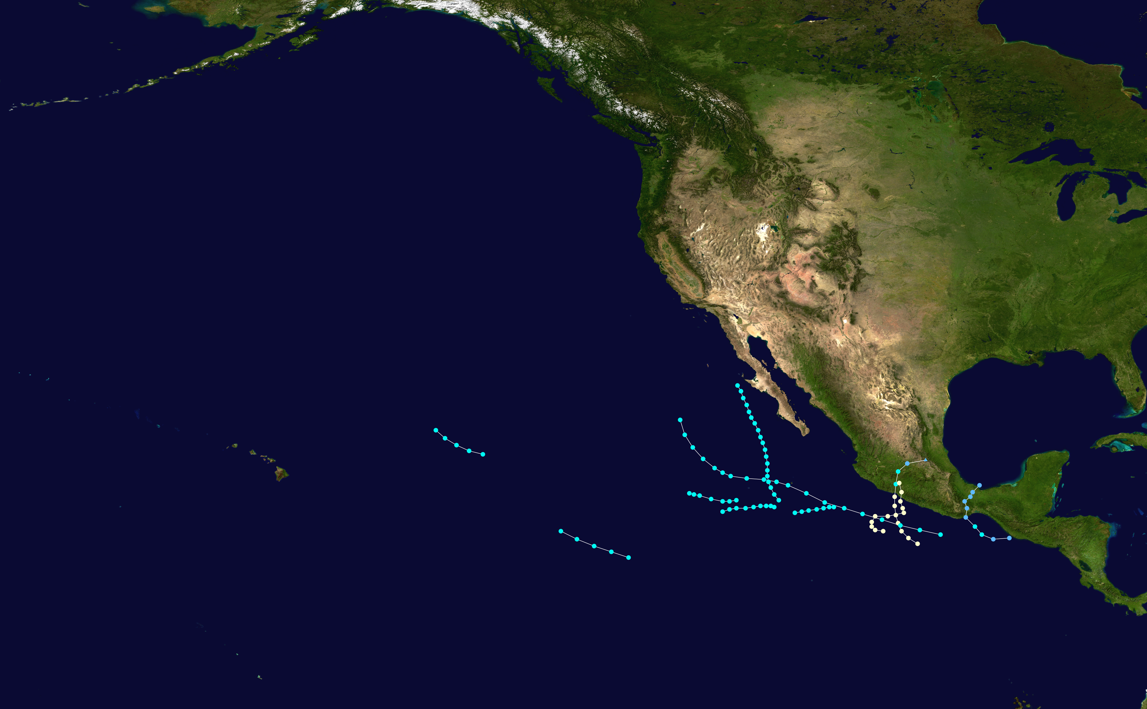 This map shows the tracks of all tropical cyclones in the 1961 Pacific hurricane season. The points show the location of each storm at 6-hour intervals. The colour represents the storm's maximum sustained wind speeds as classified in the Saffir-Simpson Hurricane Scale (see below), and the shape of the data points represent the type of the storm. Saffir–Simpson hurricane wind scale Tropical depression≤38 mph≤62 km/h Category 3111–129 mph178–208 km/h Tropical storm39–73 mph63–118 km/h Category 4130–156 mph209–251 km/h Category 174–95 mph119–153 km/h Category 5≥157 mph≥252 km/h Category 296–110 mph154–177 km/h Unknown Storm typeTropical cycloneSubtropical cycloneExtratropical cyclone / Remnant low / Tropical disturbance